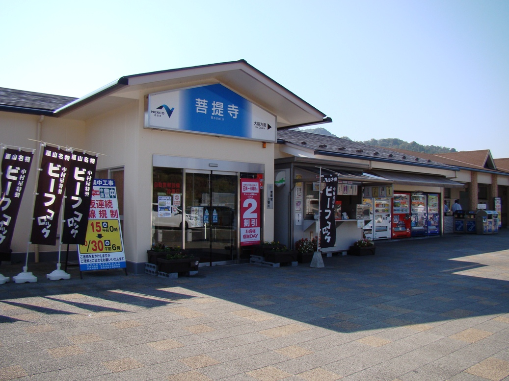 Bodaiji parking area Meishin expressway Shiga Japan